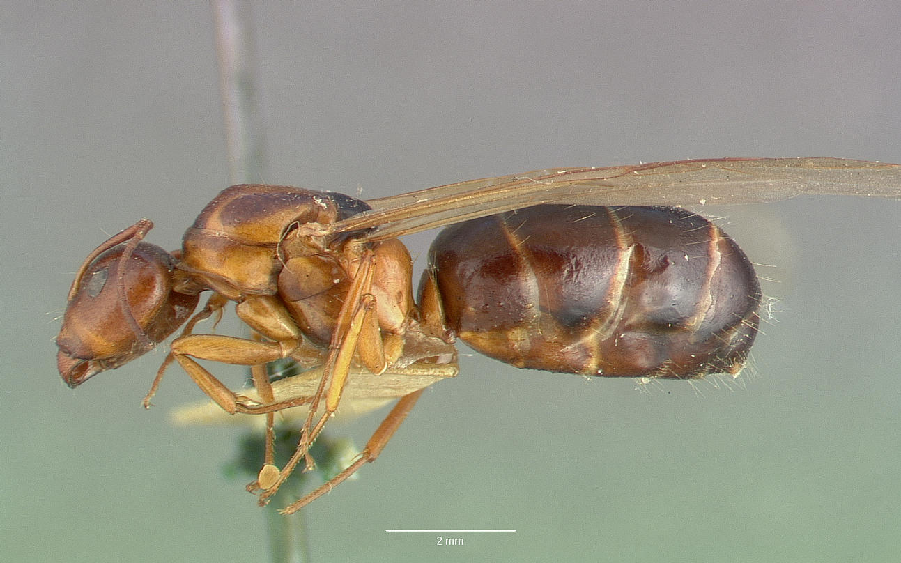 Profile view of ant Camponotus hyatti specimen castype00599.